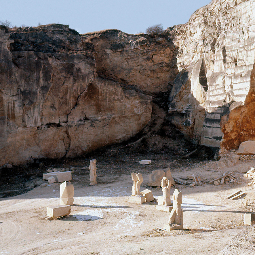 In the quarry in St. Margarethen, Winter 1960/61